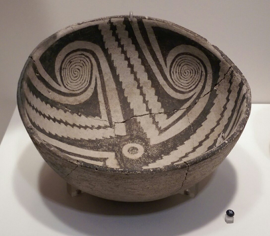 A Mimbres black-on-white bowl ca. 1000-1150 on display at the Cslifornia Academy of Sciences in San Francisco. Photo by Jim Heaphy.